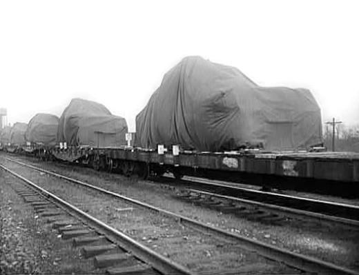 A string of flatcars in Detroit, Michigan, loaded with covered tanks.